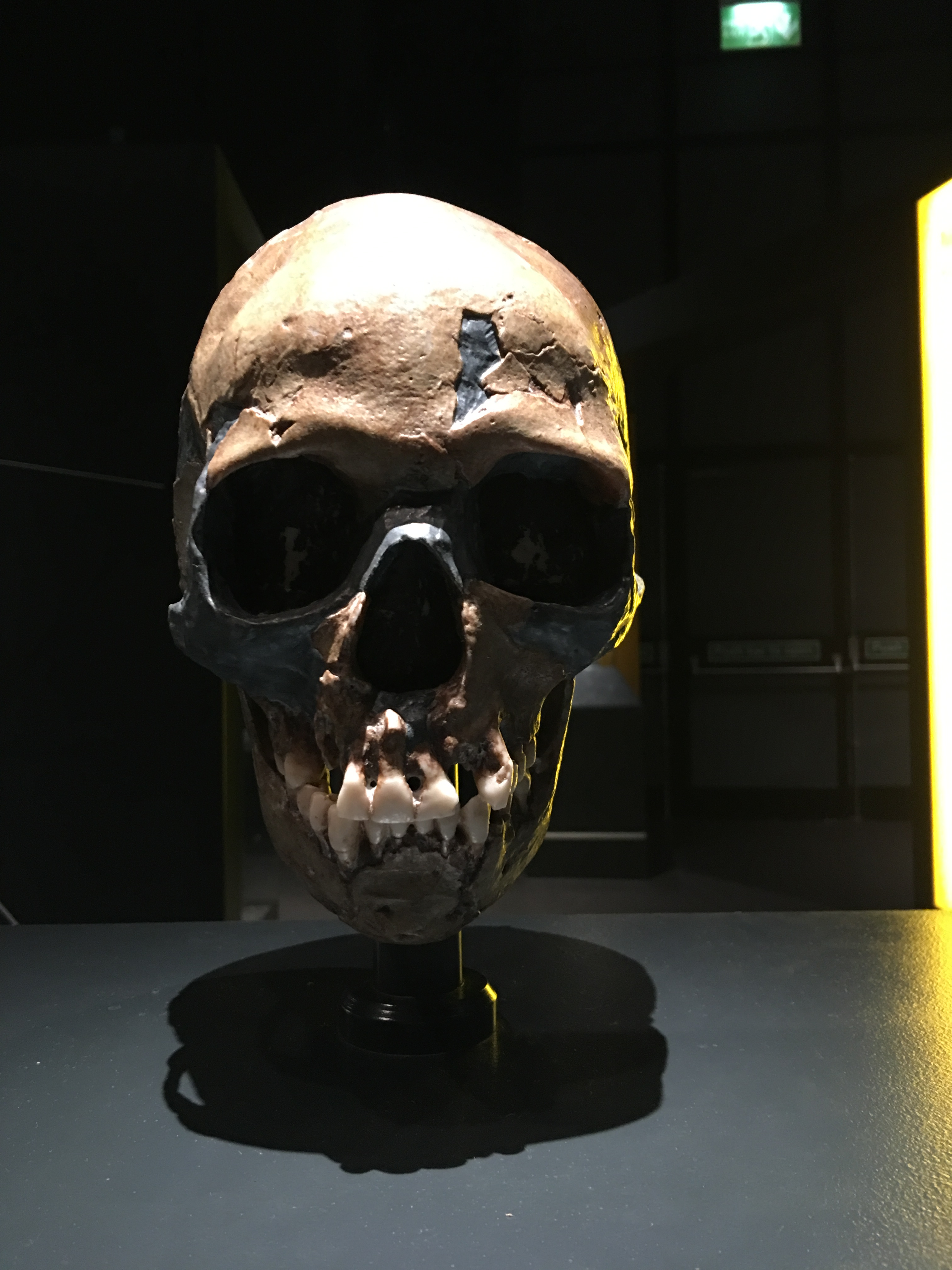 A skull cast of the Qafzeh 11 child. Natural History Museum, London.